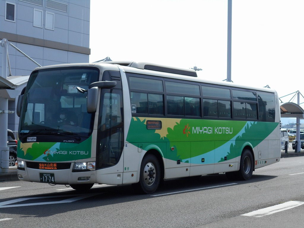 Miyagi Kotsu Mitsubishi Fuso Aero Ace (BKG-MS96JP),highwaybus Sendai airport - Yamagata stn.